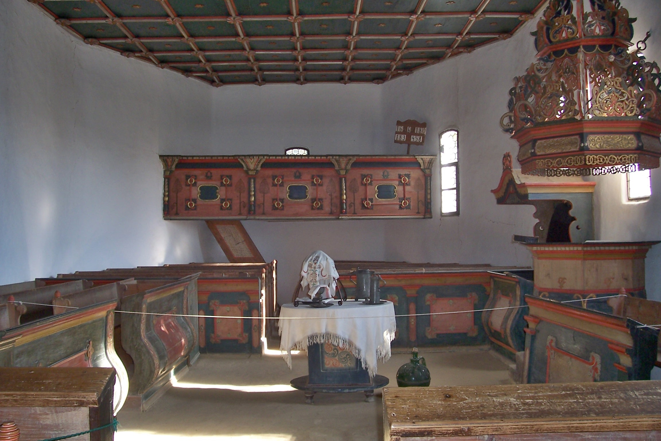 Szentendre, Hungary.